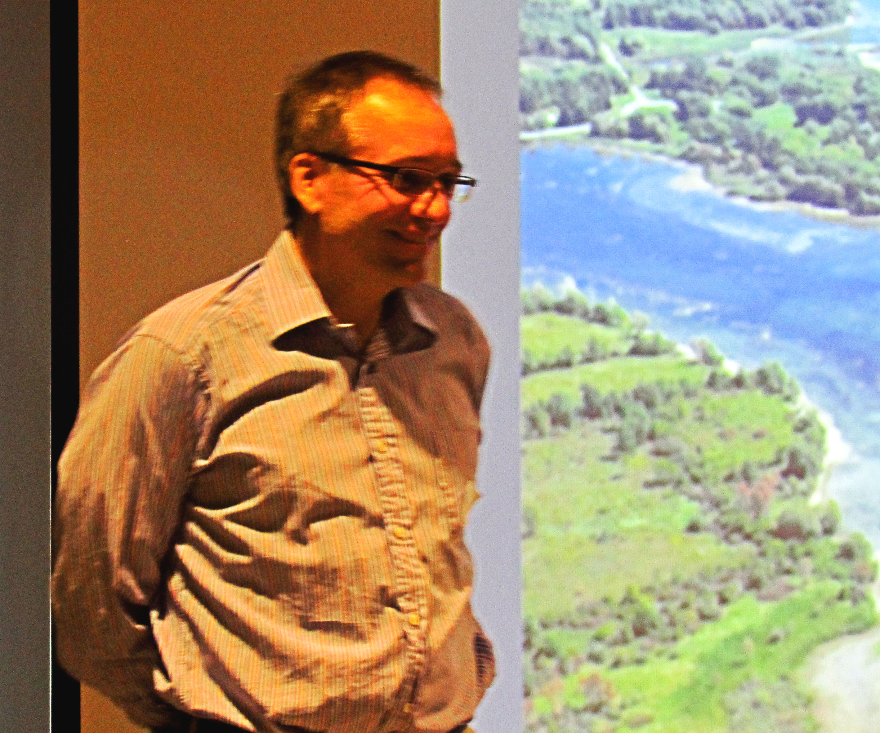 Louis Helbig at presentation about "Sunken Villages" in Cornwall, Ontario